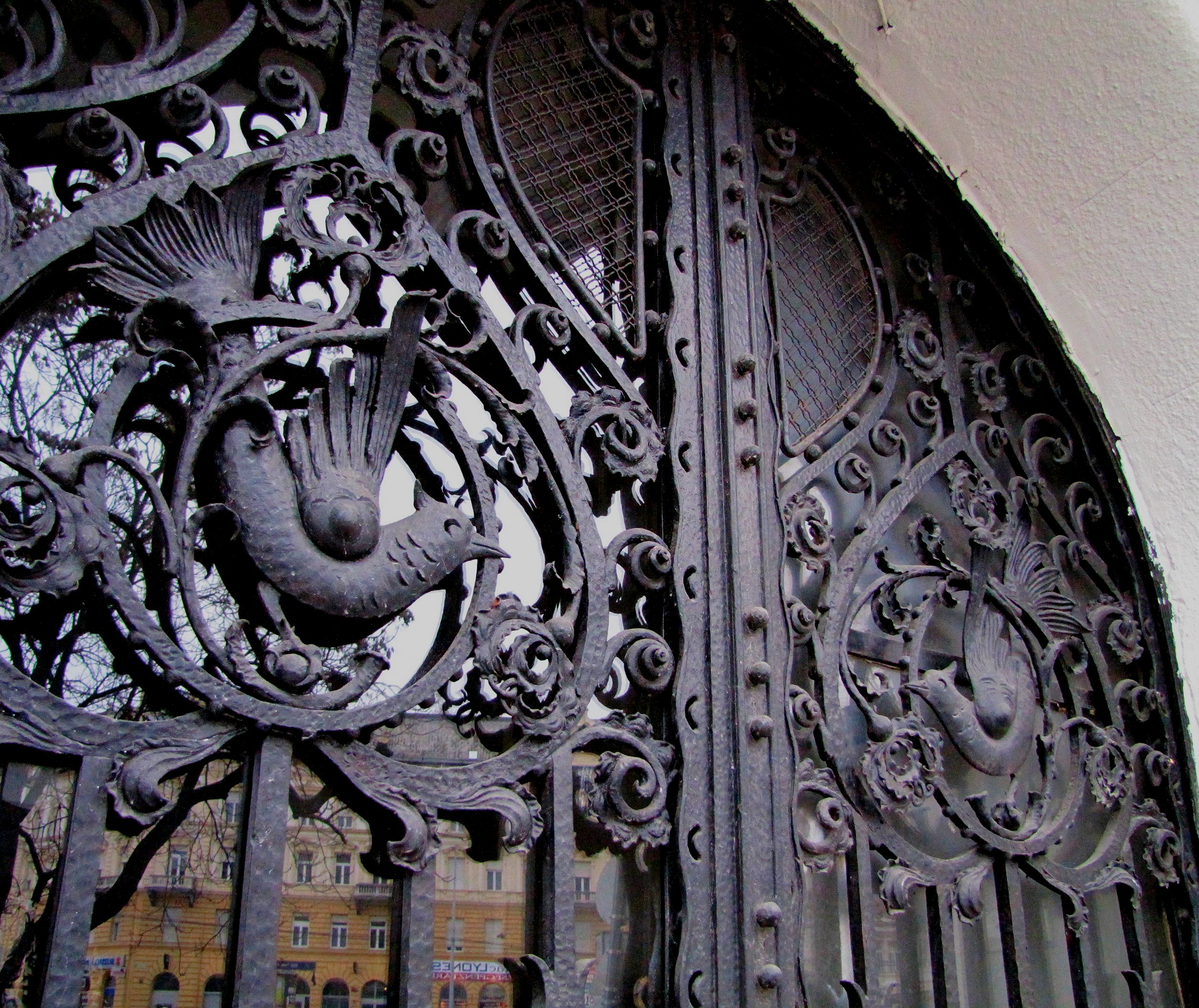 2 Boráros Square, Budapest. Architects: József Vágó and László Vágó.